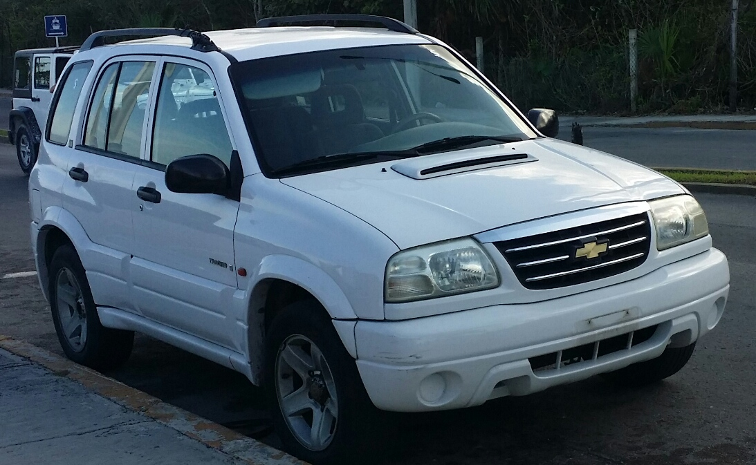 2006-2008 Chevrolet Tracker photographed in Quintana Roo, Mexico .